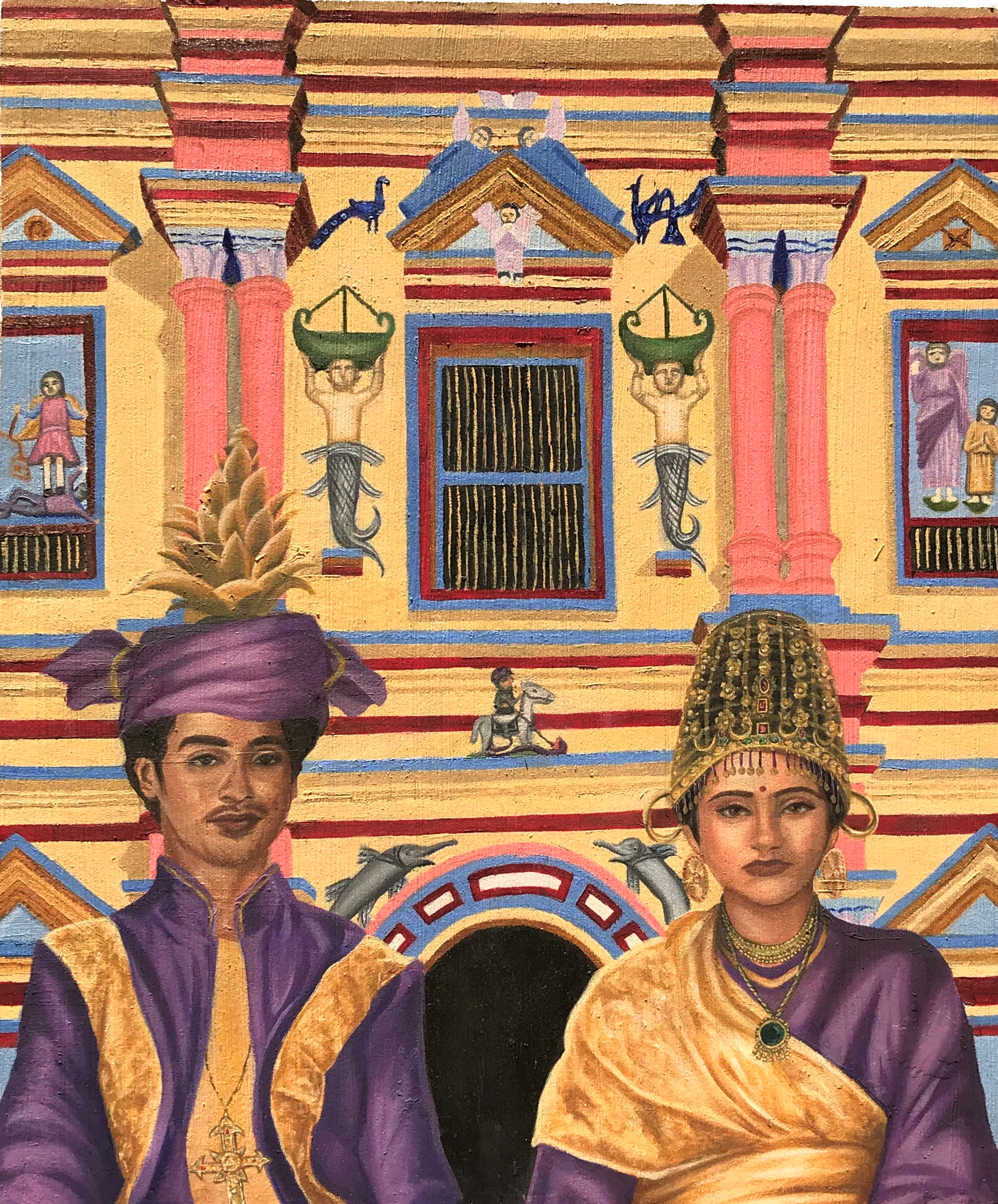 An early 20th century reproduction of a Knanaya wedding. The painting heavily draws from Indian scholar T.K. Joseph’s 1927 photograph of a Knanaya couple in Chunkom wearing traditional wedding attire.